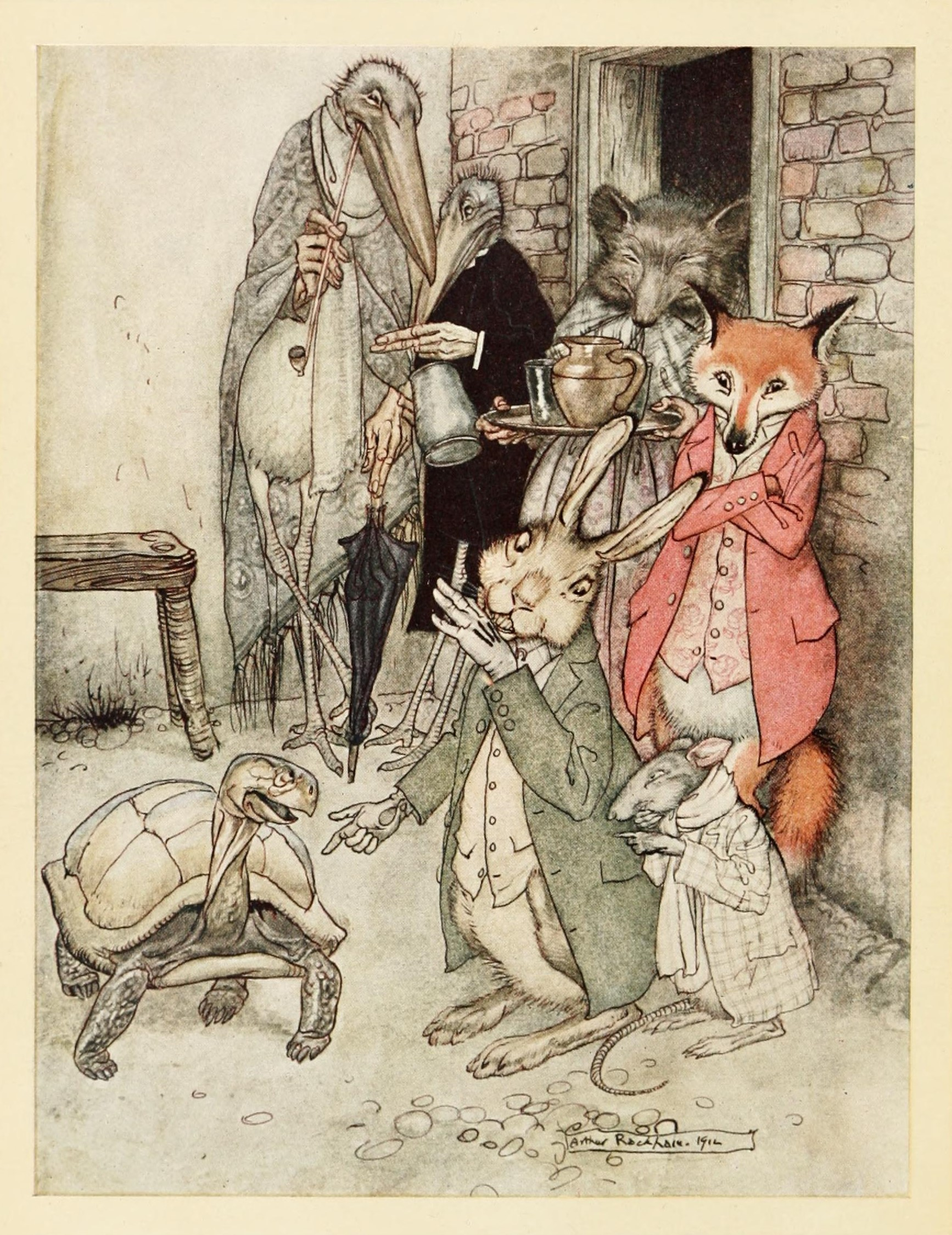 Arthur Rackham, "The Hare and the Tortoise", illustration line block printed from drawing, from Aesop's Fables. Published by Ballantyne & Co., London, 1912.